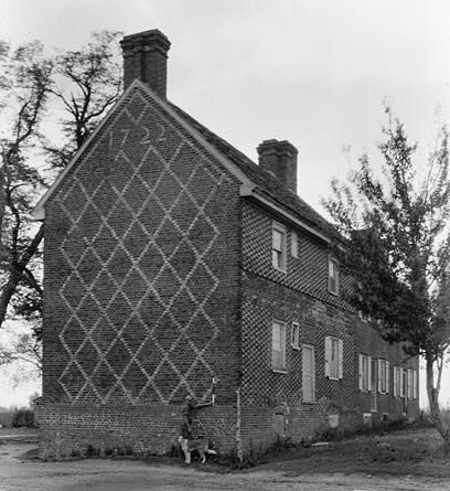 Nicholson (Abel) House, Elsinboro (Salem County, New Jersey) (cropped)